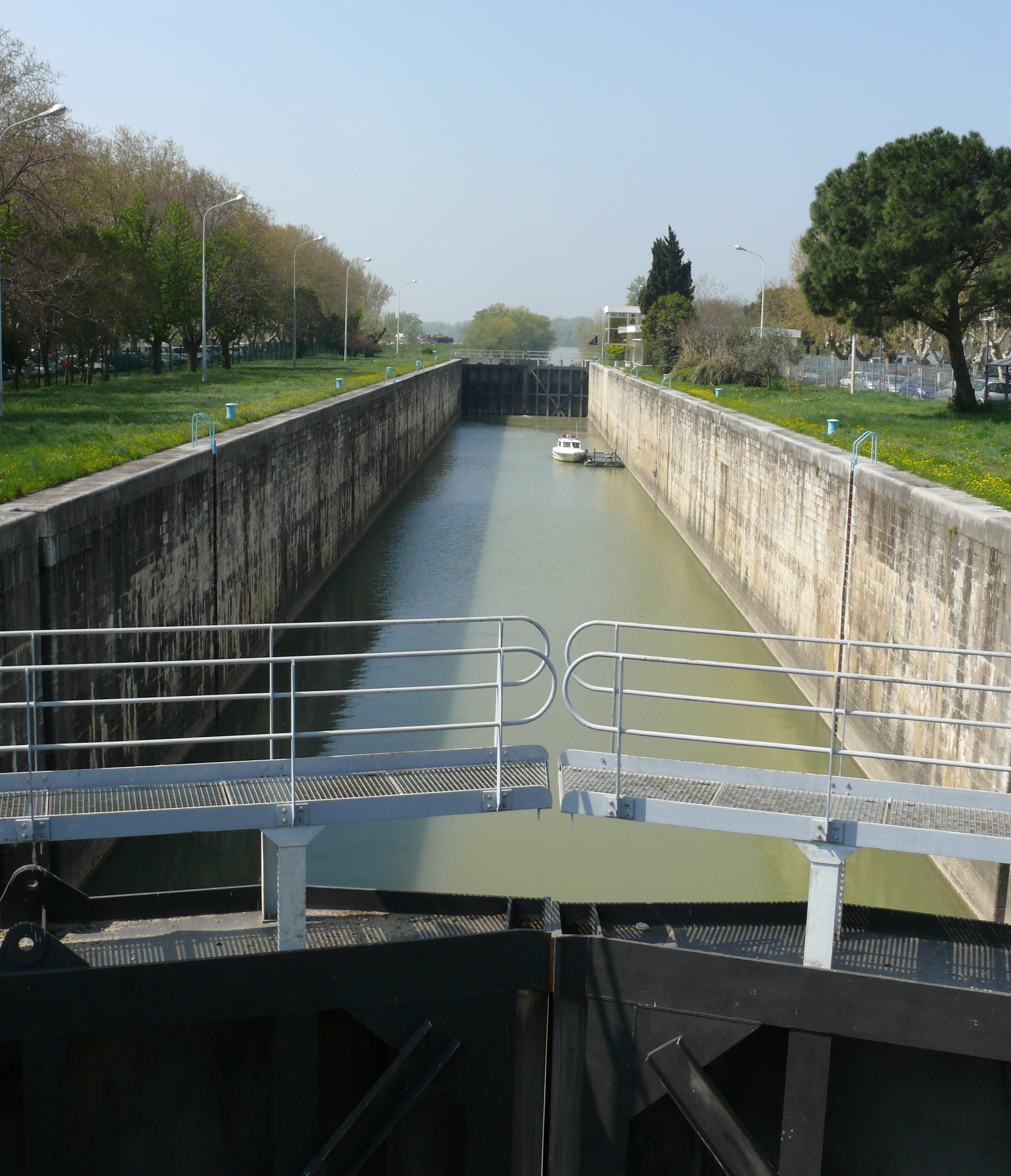 Canal lock at Arles, giving access to the Canal d'Arles à Port-de-Bouc from the Rhone river.